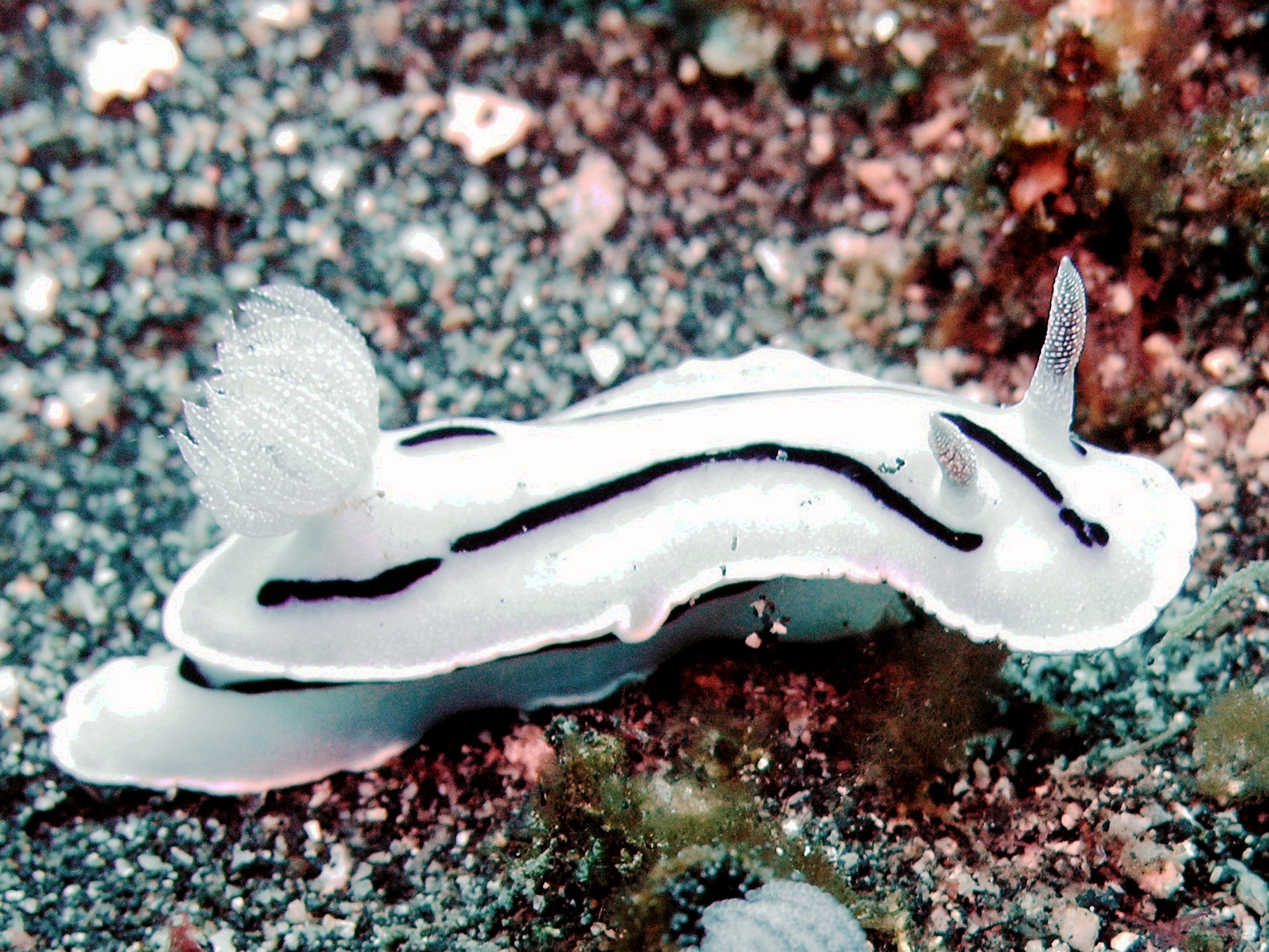 Image of nudibranch Chromodoris willani. Taken at Lembeh Straits, North Sulawesi, Indonesia.